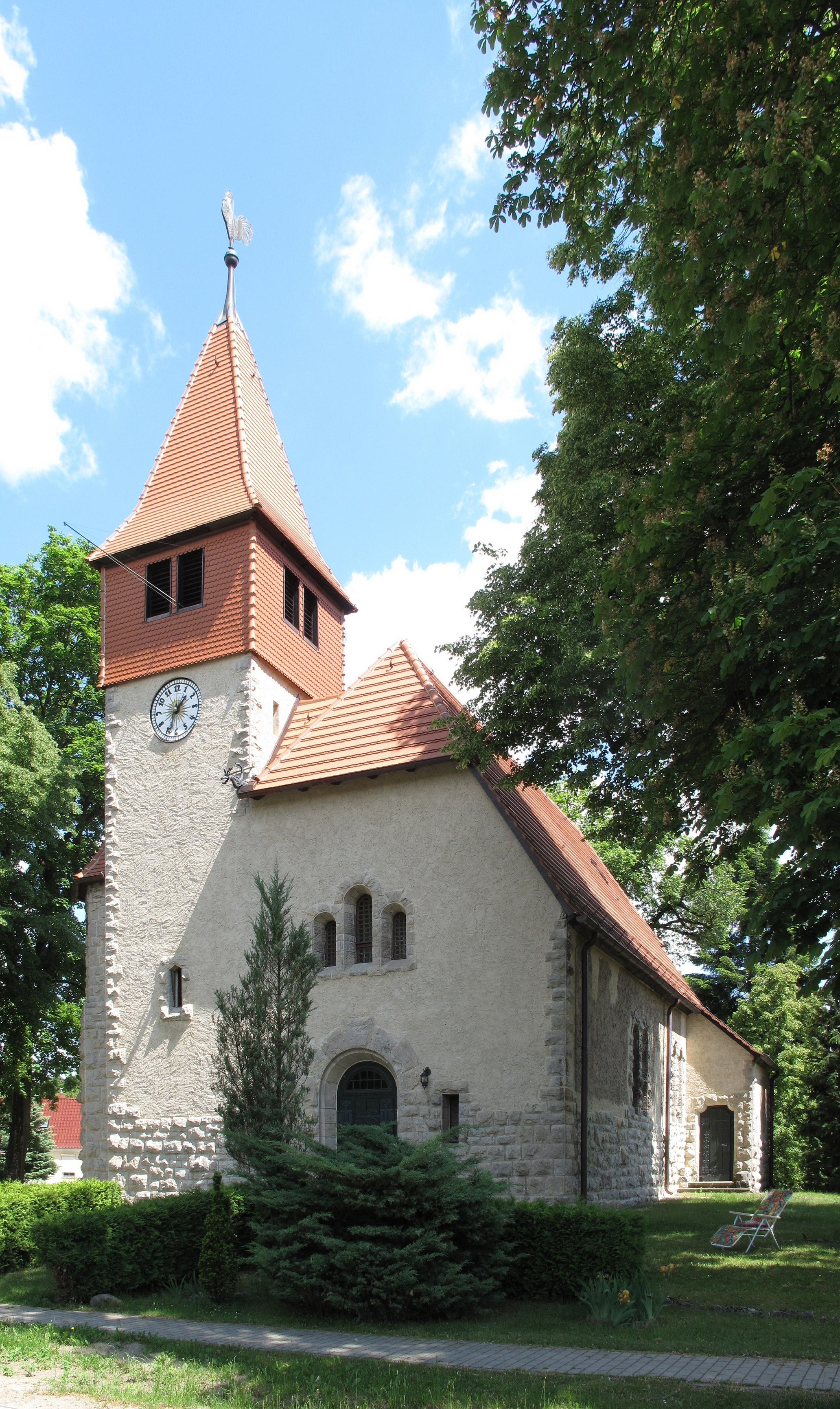 Listed church in Kienbaum, built in 1908/09. The village Kienbaum is a part of the municipality Grünheide, District Oder-Spree, Brandenburg, Germany. The village had in 2011 approximately 300 inhabitants.